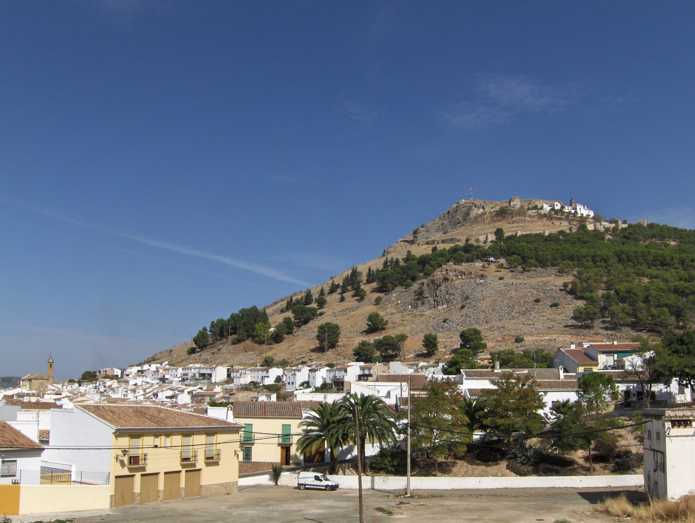 View of Archidona, Málaga, Spain.